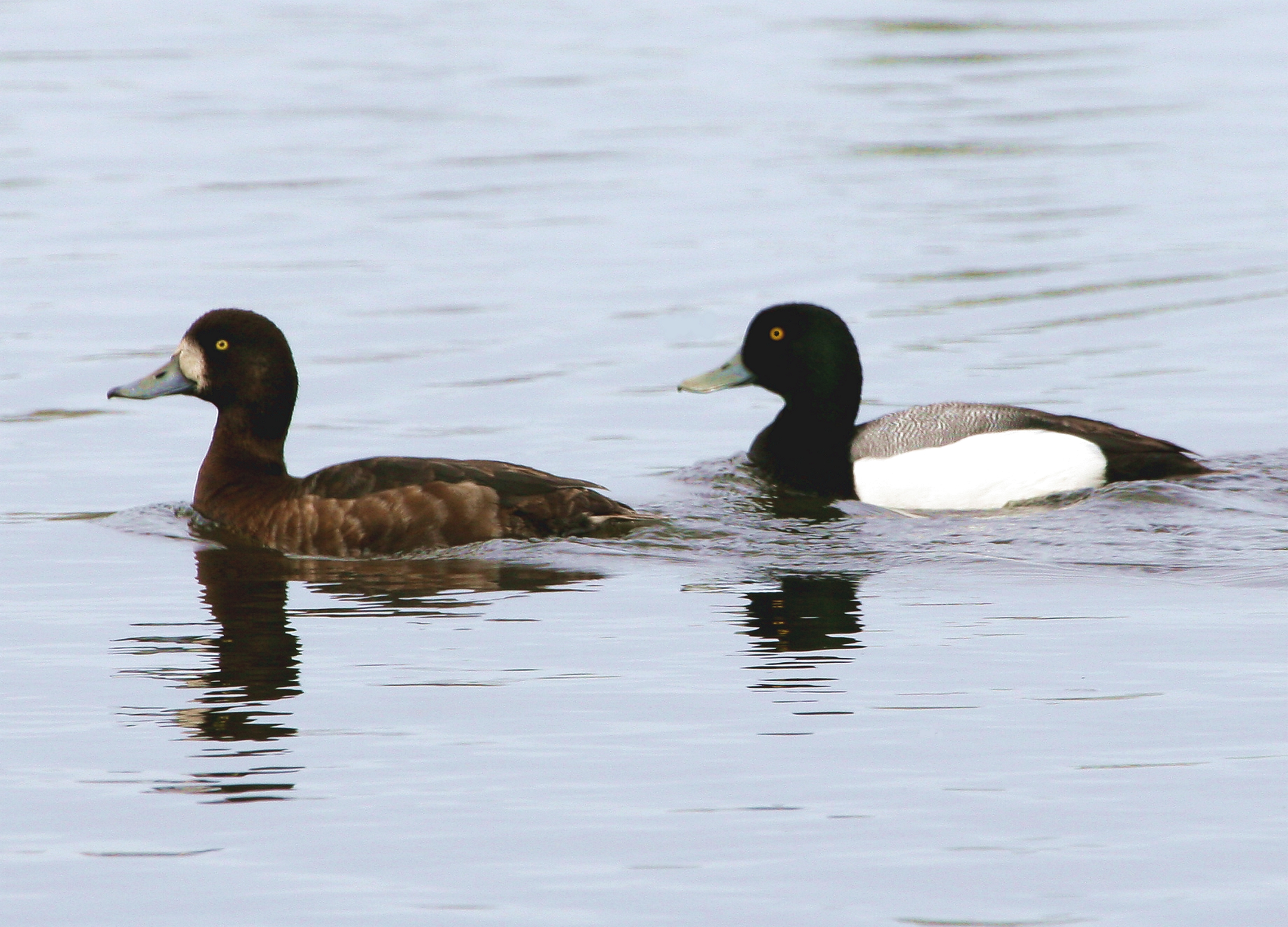 Greater Scaup Pair (Aythya marila) This image was taken at Westchester Lagoon, Anchorage, Alaska.